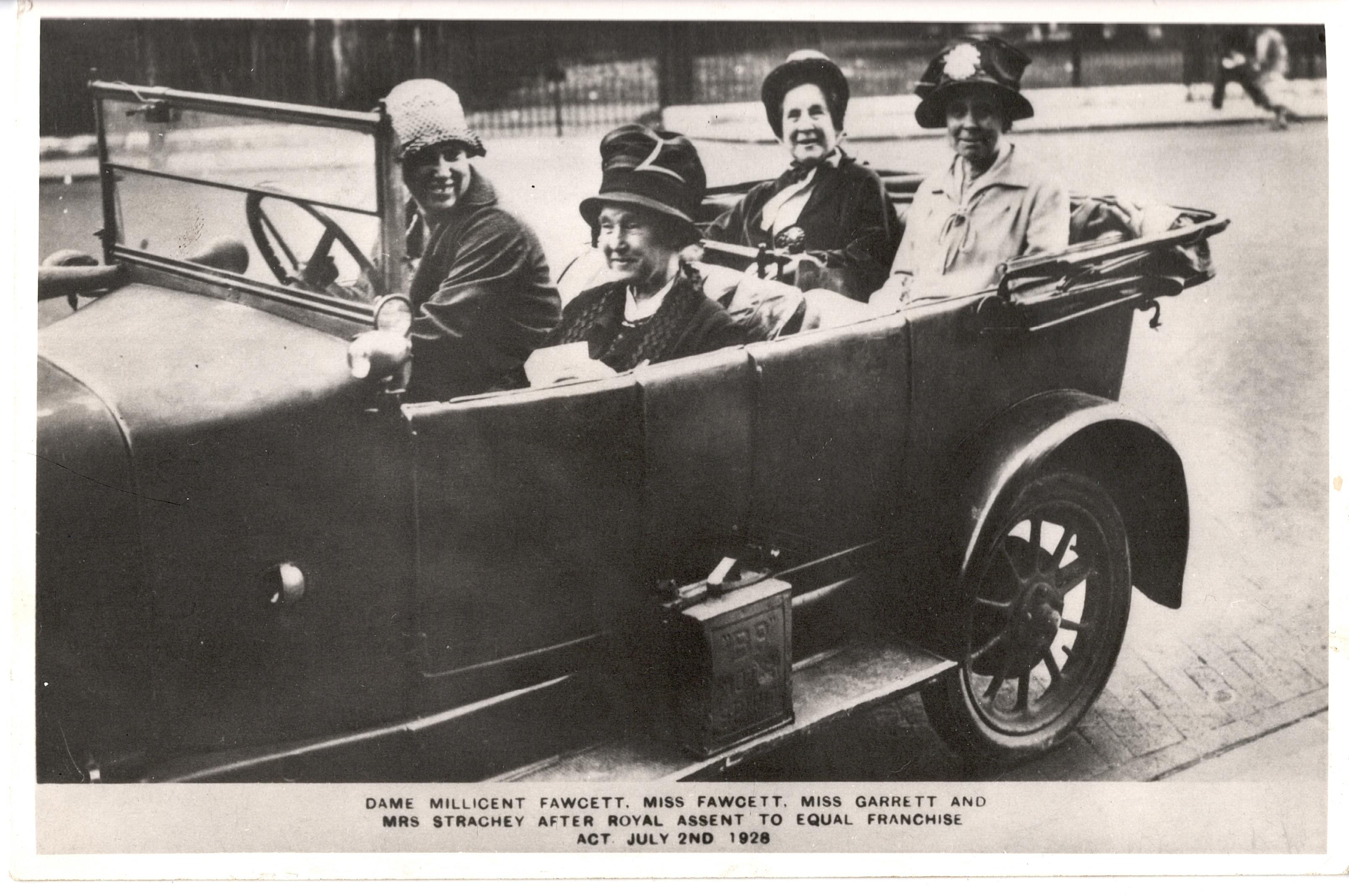 After Royal Assent to Equal Franchise Act. Date: 2 July 1928. TWL 2002 329 Millicent Garrett Fawcett, Agnes Garrett, Miss Fawcett and Ray Strachey, after Royal Assent to the Equal Franchise Act, 1928, seated in a car parked on the road